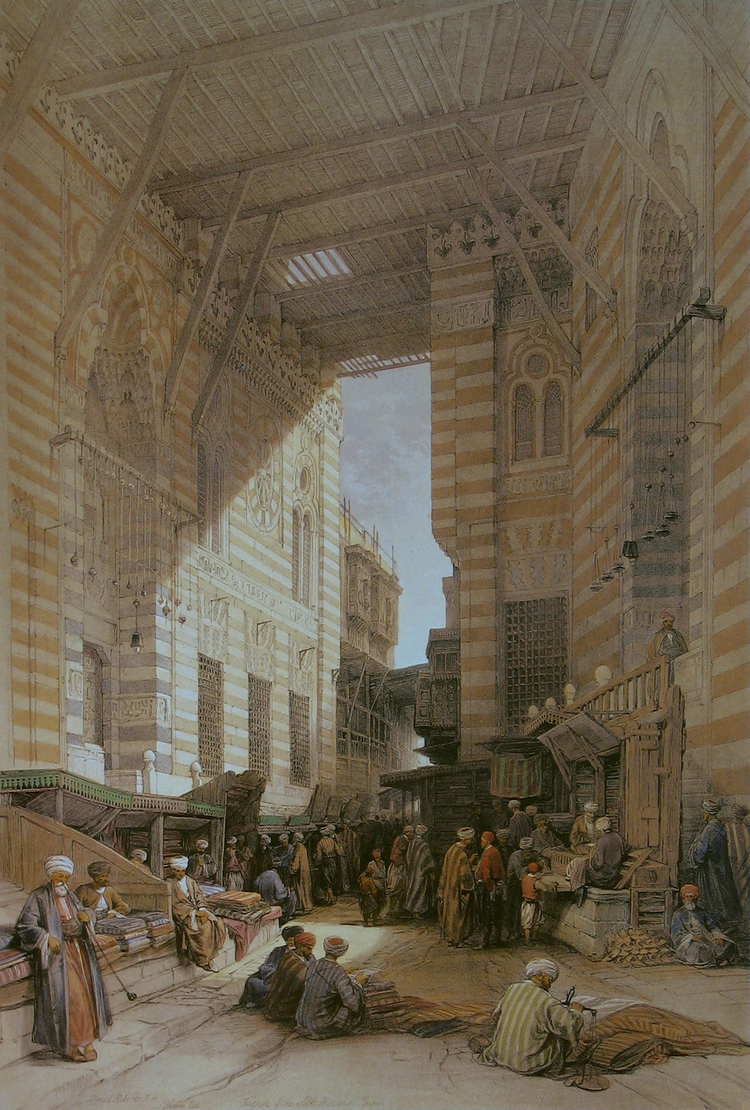 The silk mercers' bazaar of el Gooreyeh, Cairo